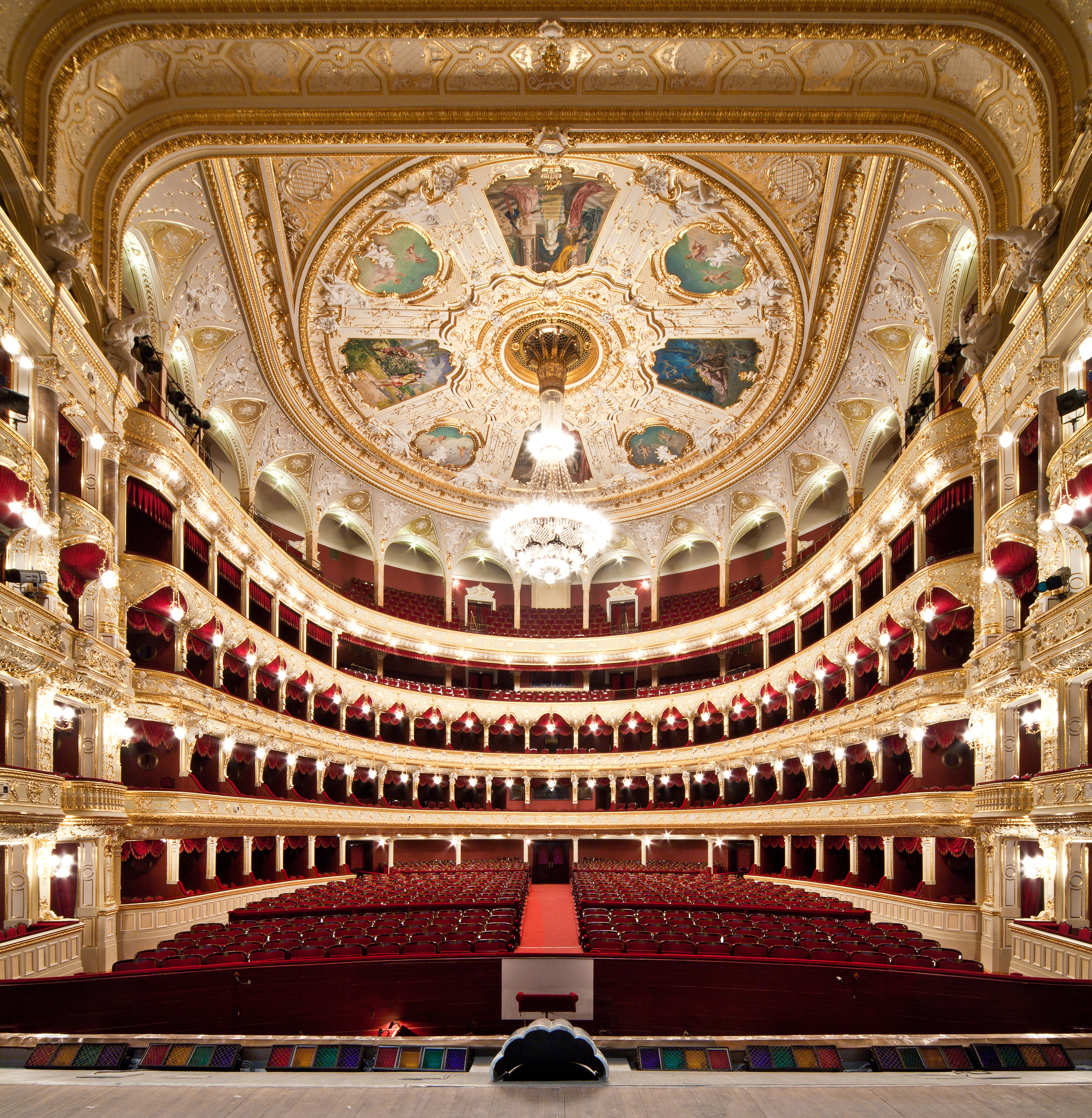 Audience hall of Odessa Opera and Ballet Theater (1887, Büro Fellner & Helmer, architectural monument of the national significance №549). Odesa, Ukraine